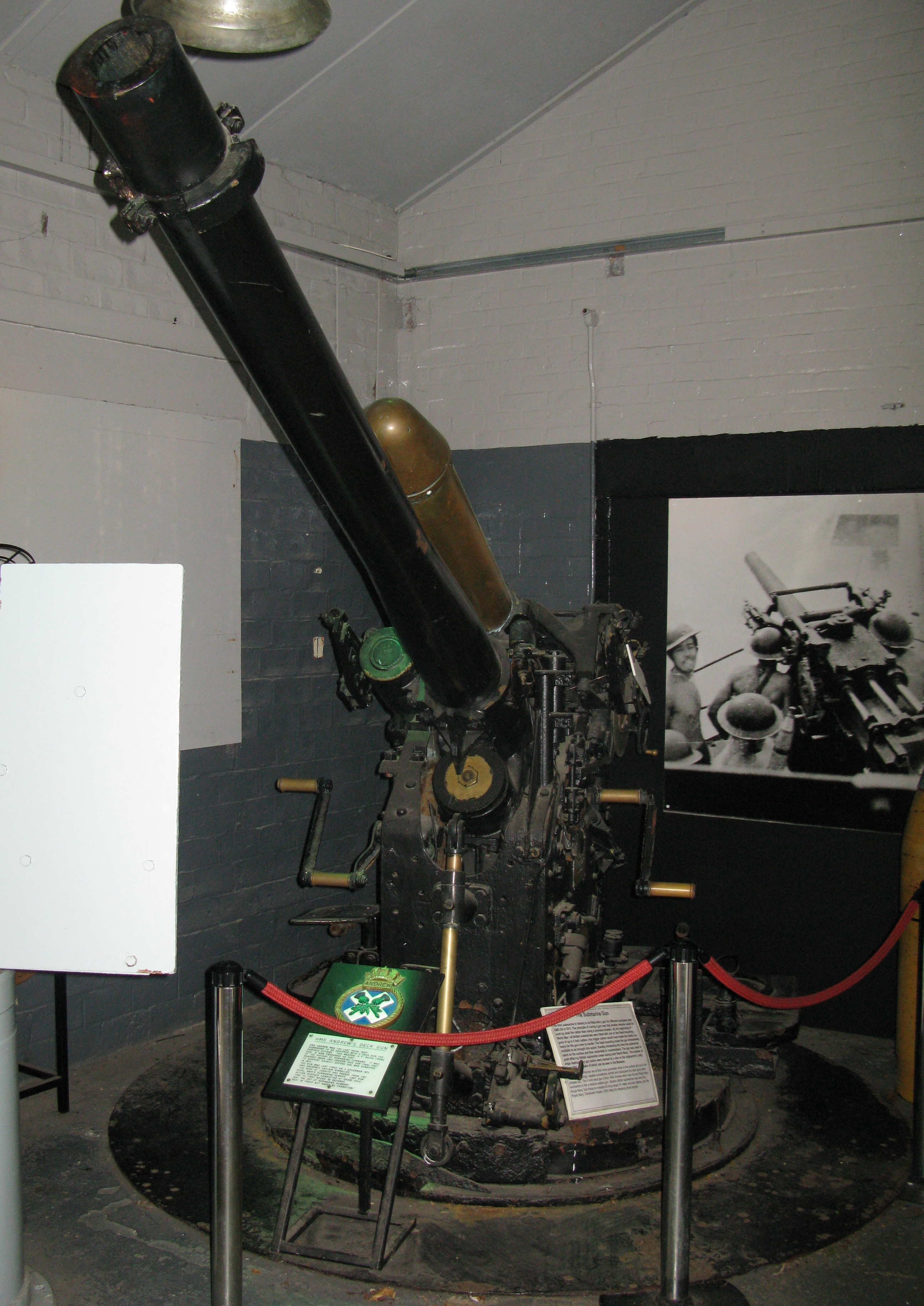 Photograph of the 4 inch deck gun originally mounted on the submarine HMS Andrew.